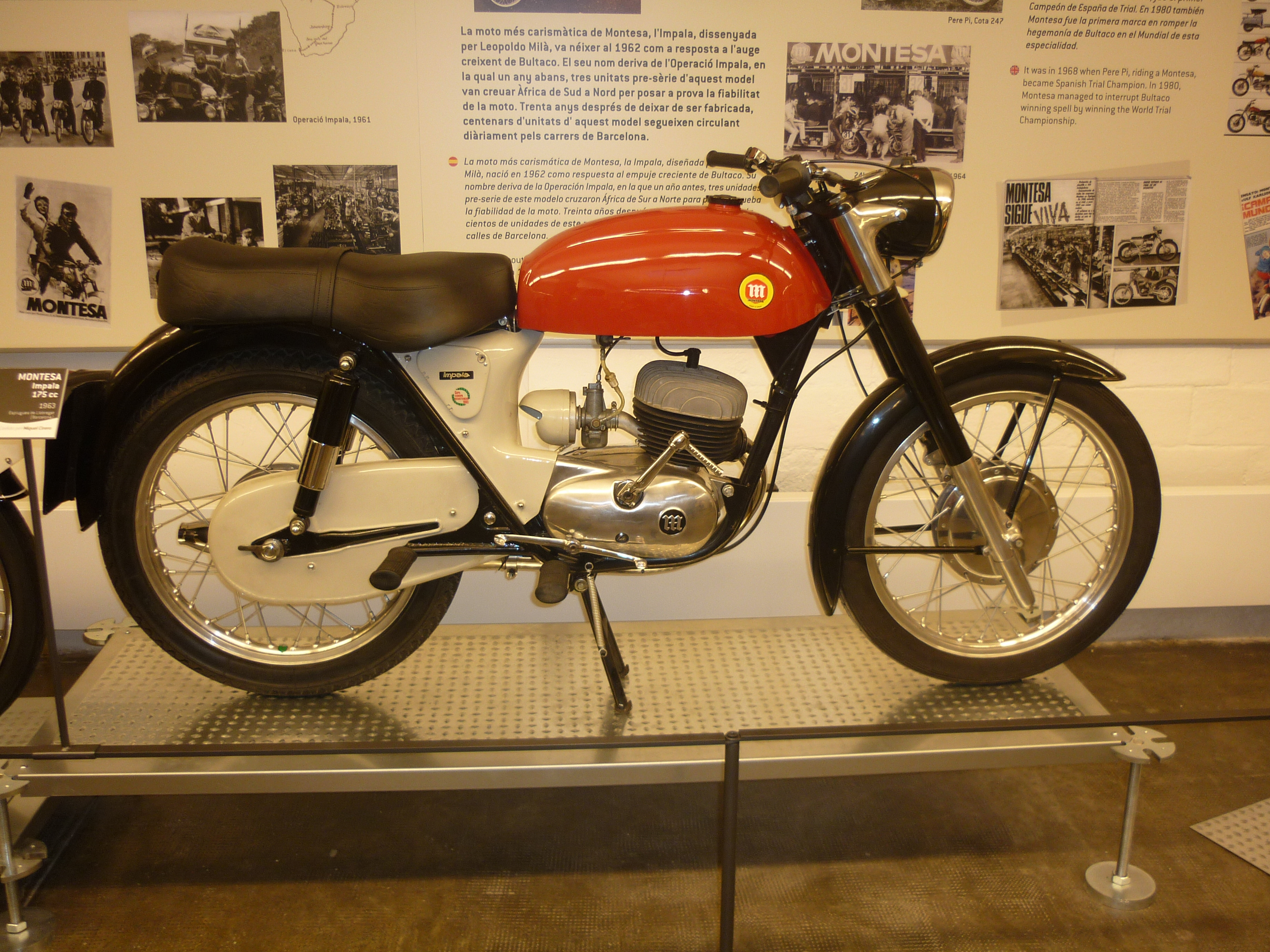 Montesa Impala 175cc (1963).Museu de la Moto de Barcelona (Catalonia).